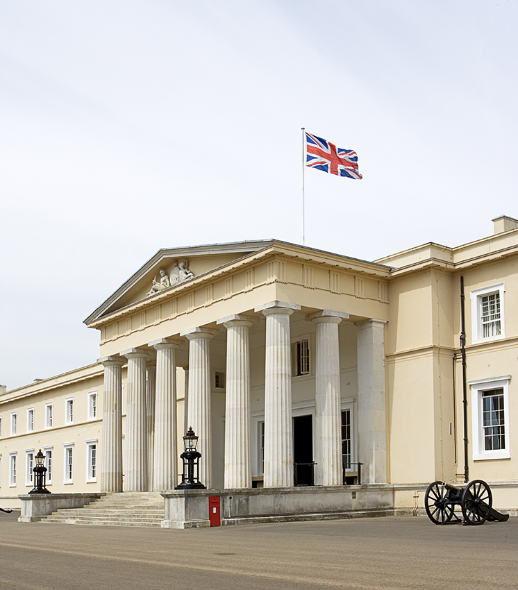 Old College Royal Military Academy Sandhurst UK - opened 1812